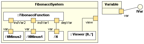 Composite Structure Diagram A Composite structure diagram is a type of static structure diagram in the Unified Modeling Language (UML), that describes the internal structure of a class and the collaborations that this structure makes possible. This can include internal parts, ports through which the parts interact with each other or through which instances of the class interact with the parts and with the outside world, and connectors between parts or ports.